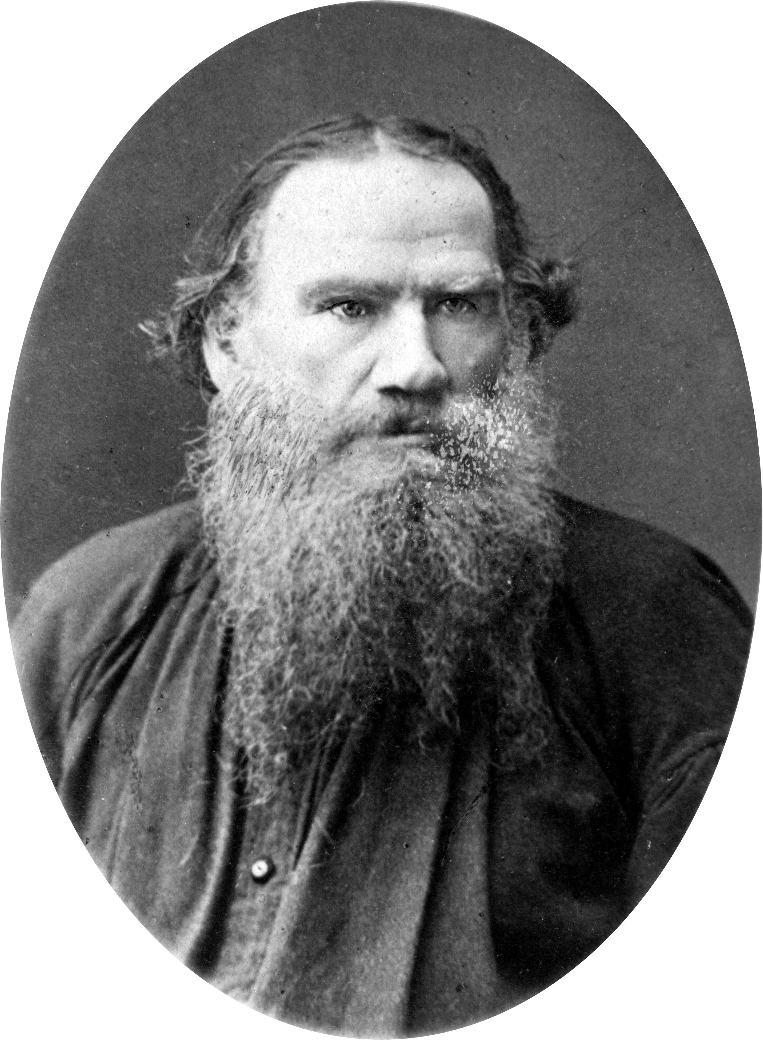 CREATED/PUBLISHED: [between 1880 and 1886]; REPOSITORY: Library of Congress Prints and Photographs Division Washington, D.C. 20540 USA.